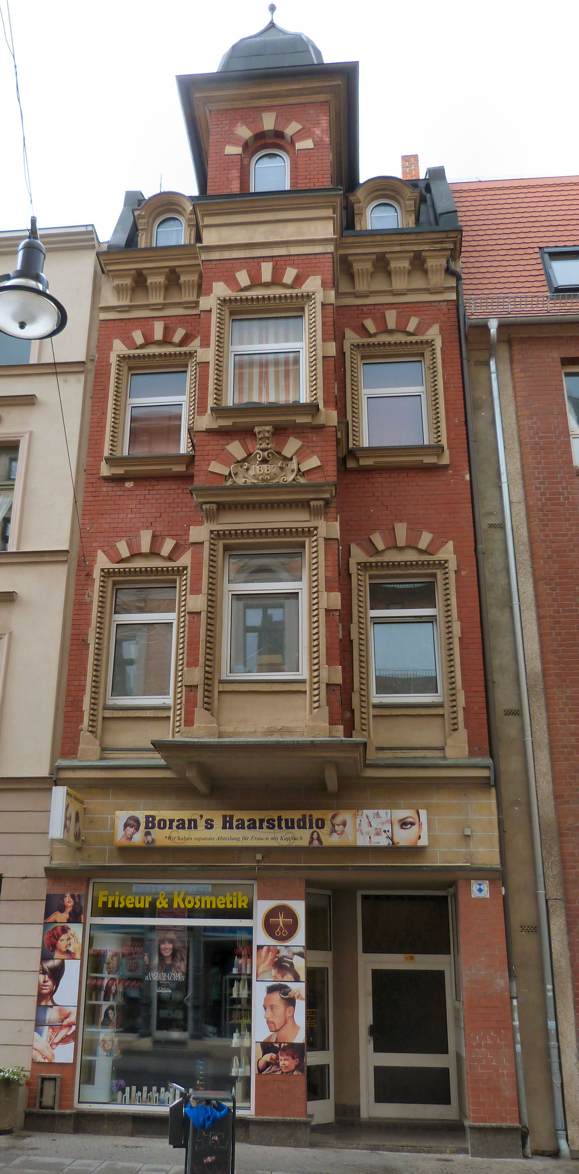 House No. 81, Leipziger Strasse in Halle (Saale)